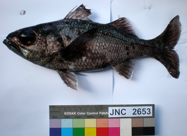 Neoscombrops pacificus. Locality: Off Nouméa, New Caledonia. Female, Fork length 320 mm, Weight 642 grams. Date 2008-10-01. Specimen identified by Bernard Séret, MNHN-IRD. Photograph also in Fishbase. See also photograph of same individual fish, fresh, with very different colours.